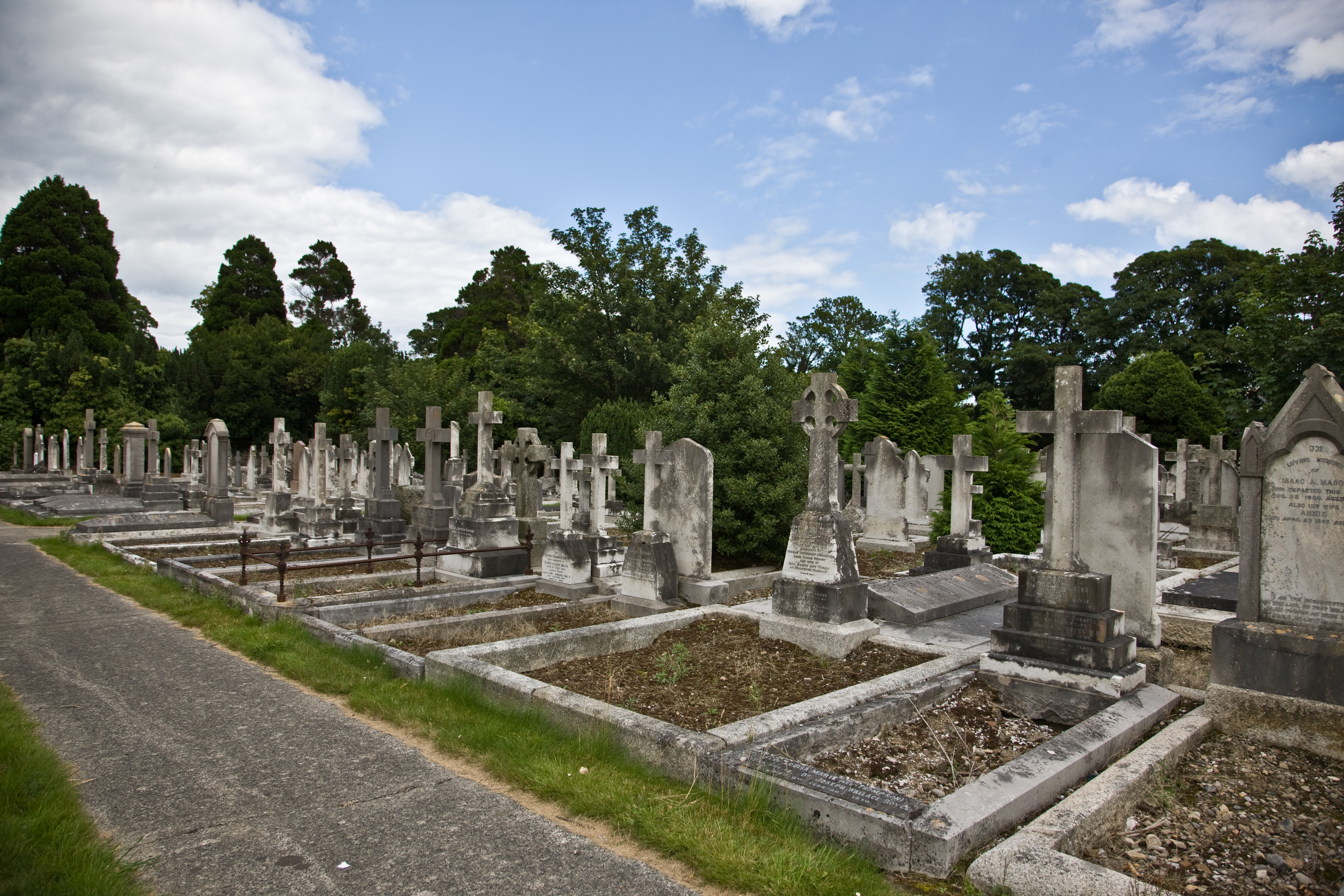 Deansgrange Cemetery at Deansgrange, Dún Laoghaire–Rathdown Co., Ireland